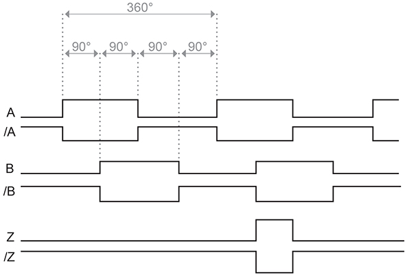 Typical incremental pulse diagram for signals A, B, Z and reverted /A, /B, /Z